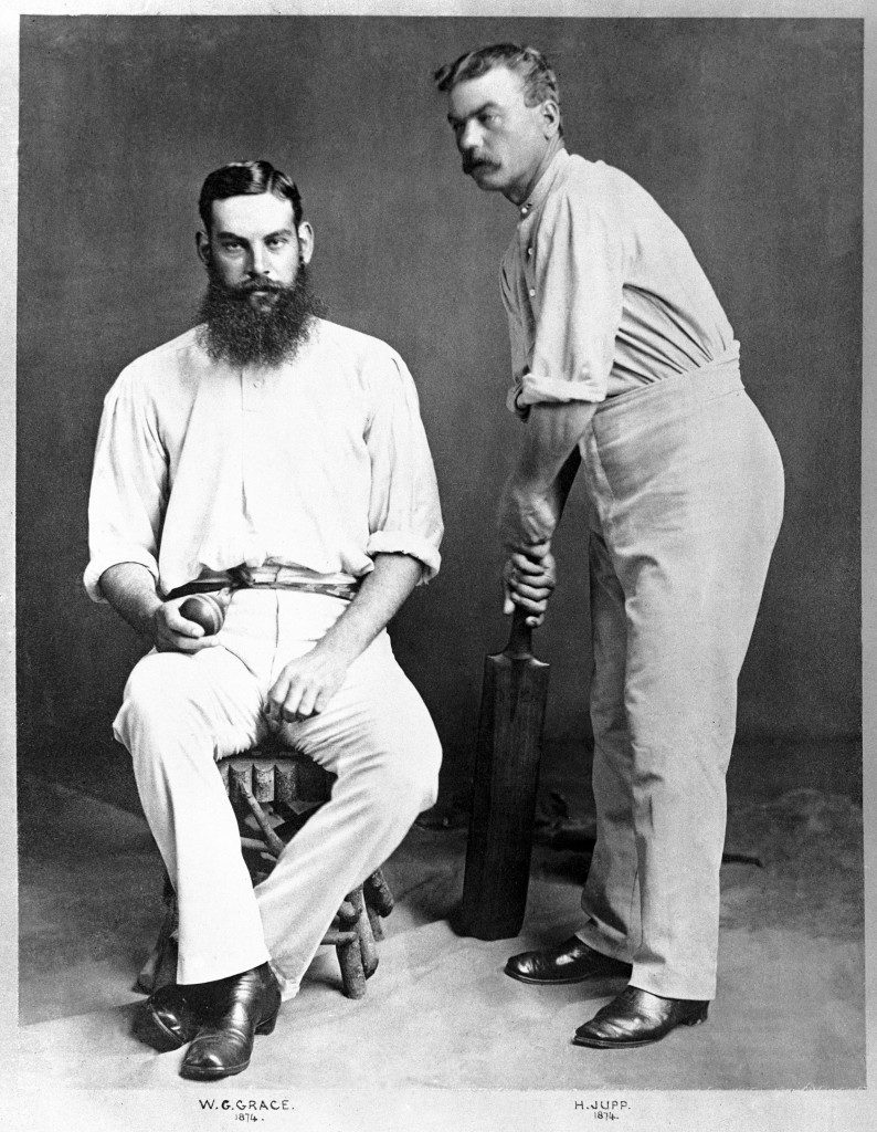 Photograph of cricketers W. G. Grace and Harry Jupp in 1874.